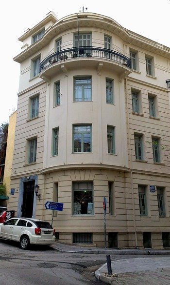 dioikisi